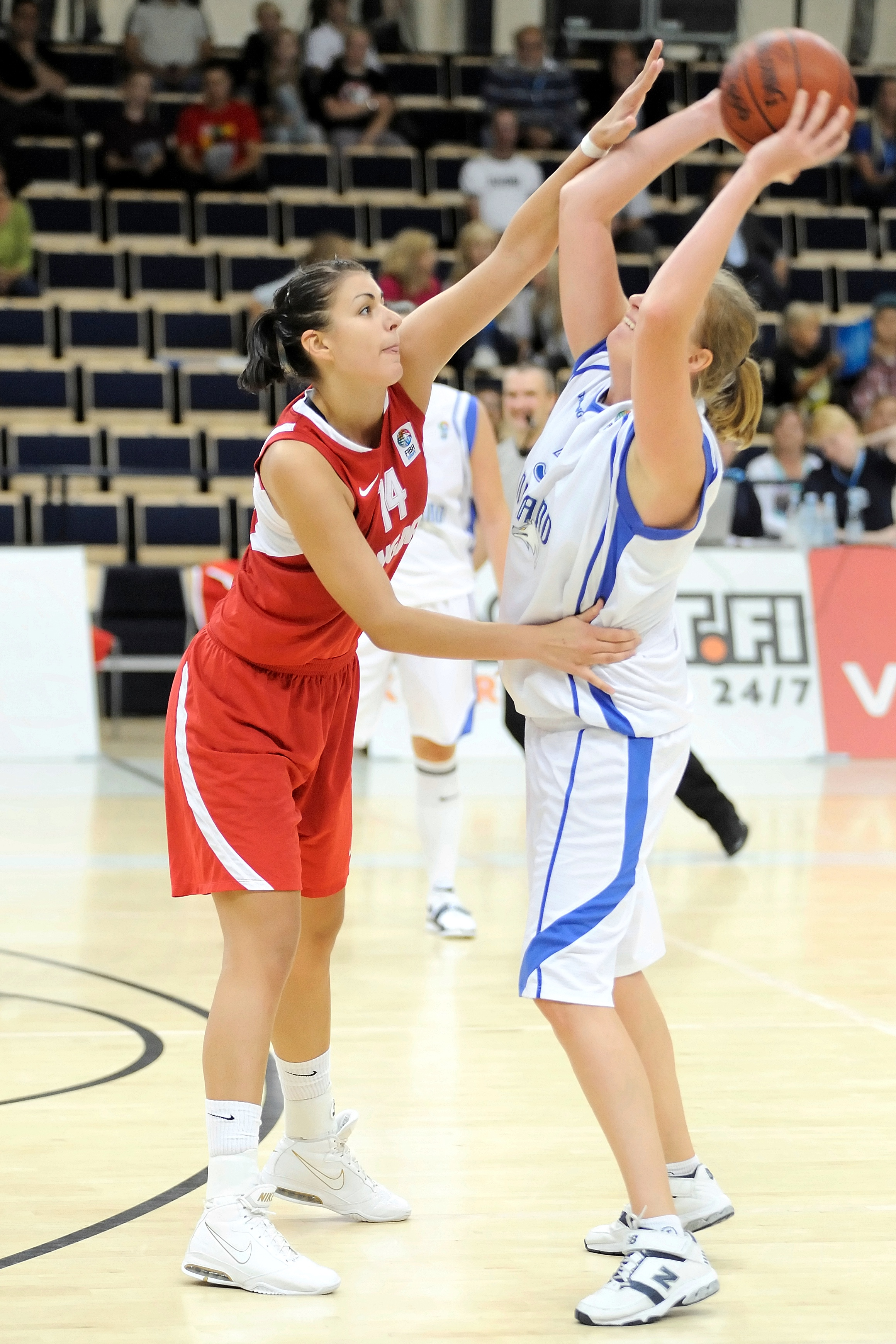 Basketball player Tijana Krivacevic playing for Hungary in the game against Finland.